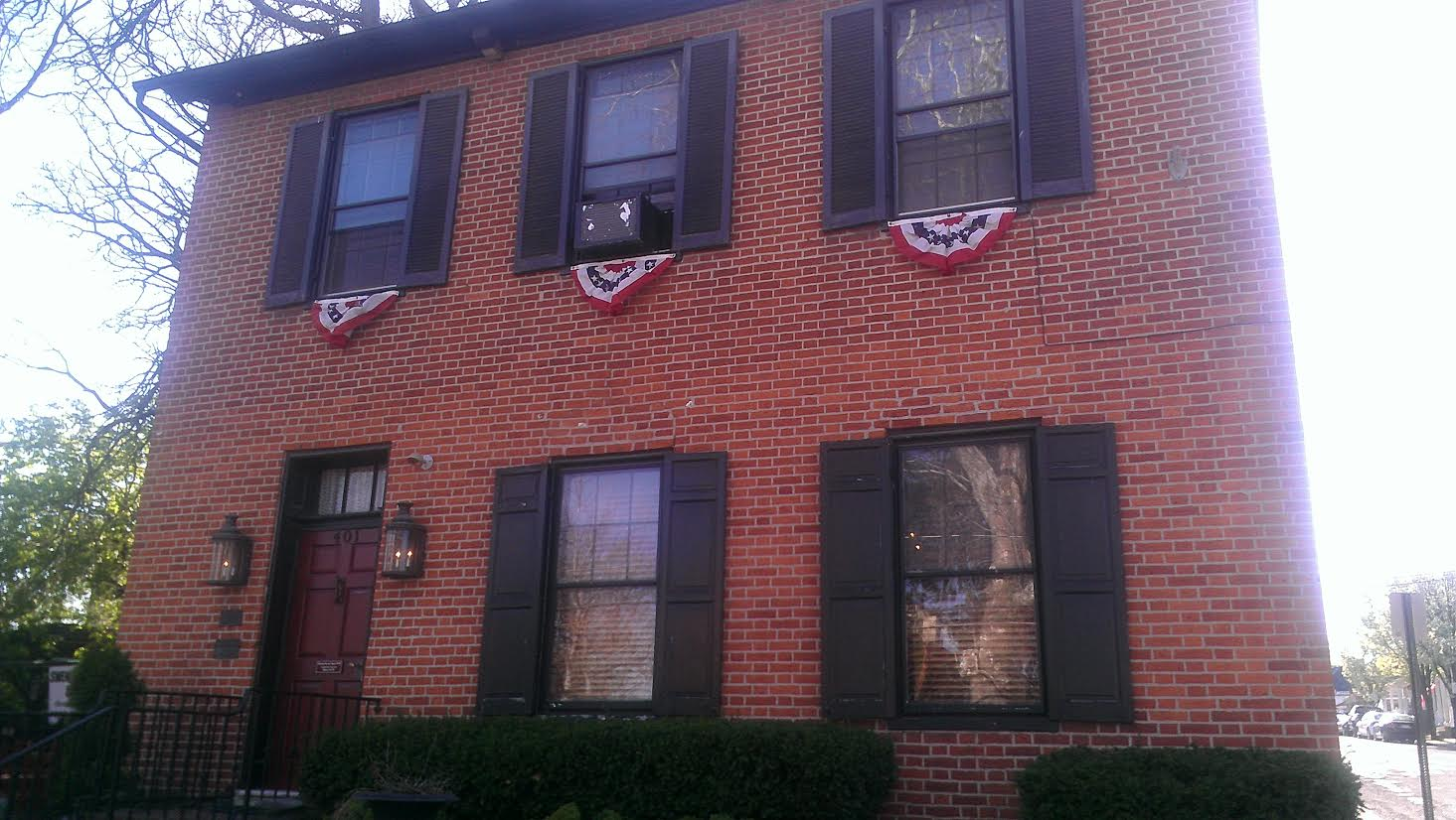 The farnsworth house inn is one of the premier haunted house in gettysburg